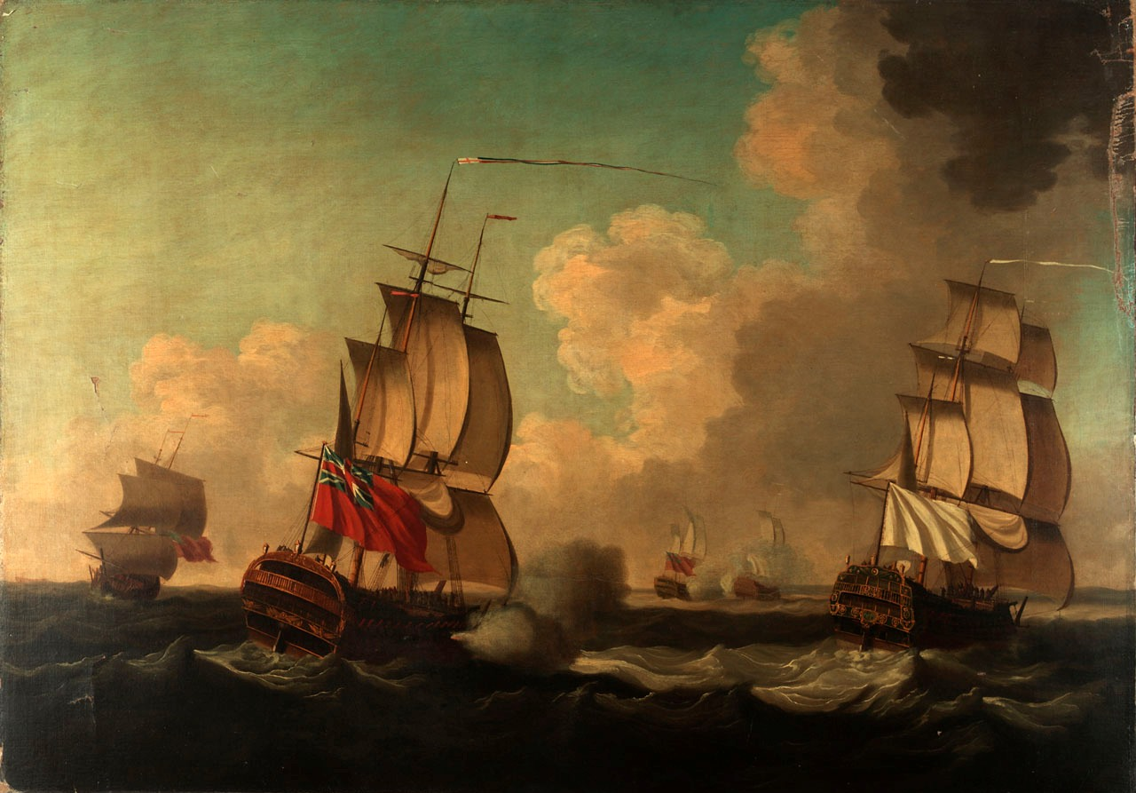 The Capture of the 'Alcide' and 'Lys', 8 June 1755 On the belief that the French were preparing to build up their military presence in America, in April 1755 an English naval squadron was despatched to America. The aim was to catch the French fleet in a net of British war ships. In charge was Admiral Boscawen who, having received his orders, got his fleet of 14 ships underway, followed soon afterwards by seven more ships under Admiral Holbourne. By the end of May, 1755, a British war fleet was cruising between the southern coast of Newfoundland and the northern coast of Cape Breton. At the same time, after a considerable delay the French fleet left Brest on 3 May, 1755. Aboard were 3,000 troops, with Admiral de la Motte in charge of the French fleet which had been dispatched with provisions for the French colonies in North America. In foggy conditions off the Newfoundland Banks, four French warships of de la Motte’s fleet became separated from their fleet and were sighted on 6 June and chased. They played hide and seek in the fog until two of them were brought to action and taken. A third that had been sighted and chased and escaped in the fog. Even though war was not officially declared, Boscawen had been ordered to attack any French squadron he met. The French ‘Alcide’ and ‘Lys’ were captured which resulted in the first shots of the Seven Years War, 1756-1763. In the foreground of this contemporary painting, the ‘Defiance’, commanded by Captain Thomas Andrews is firing into the French warship the ‘Lys’, which is not replying. Between the two ships in the background can be seen the ‘Dunkirk’ commanded by Captain the Hon. Richard Howe and the ‘Alcide’ commanded by Captain de Hocquart. On the left an English merchantman is shown coming towards the viewer. The Capture of the 'Alcide' and 'Lys', 8 June 1755